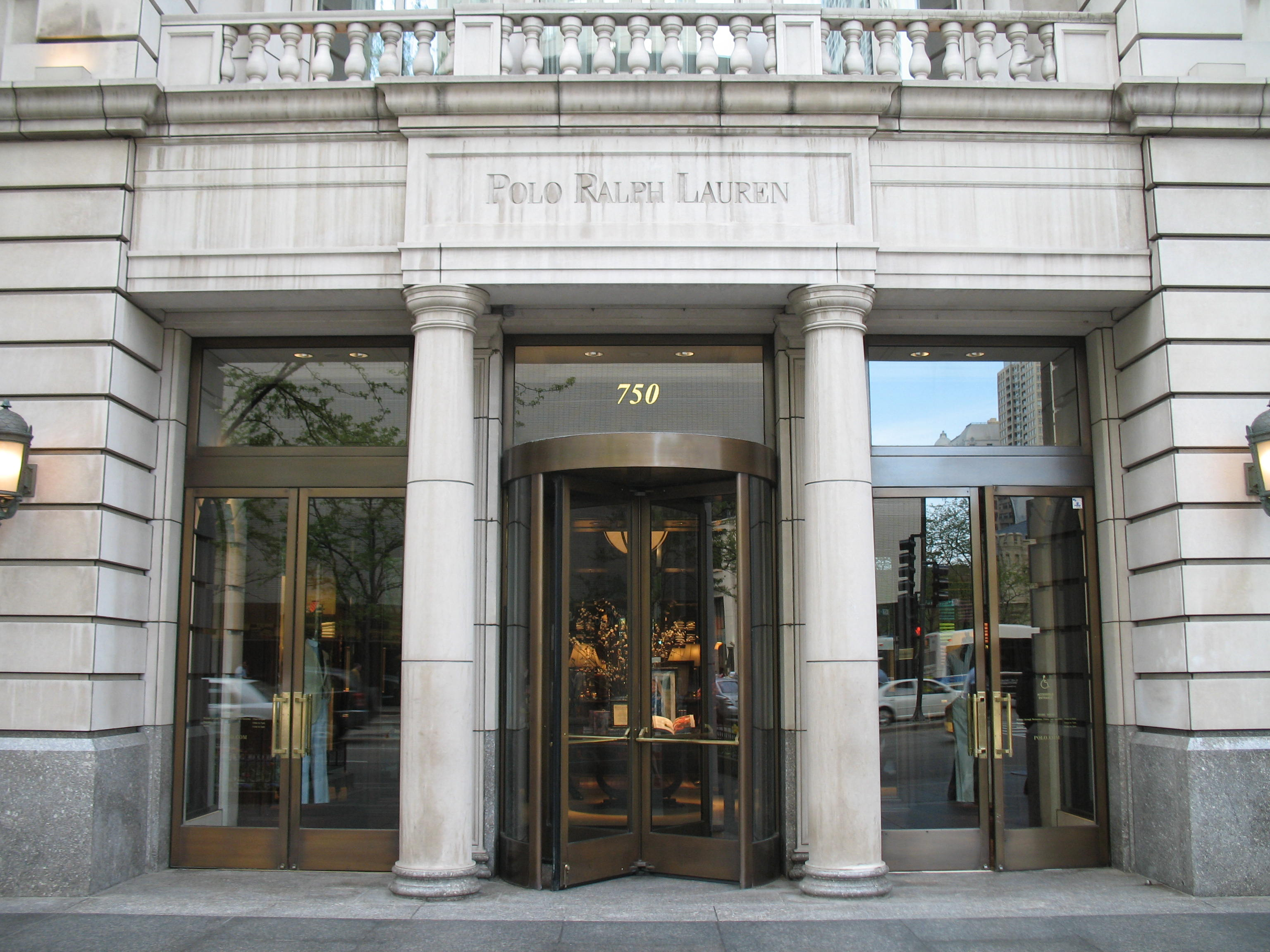 Polo Ralph Lauren